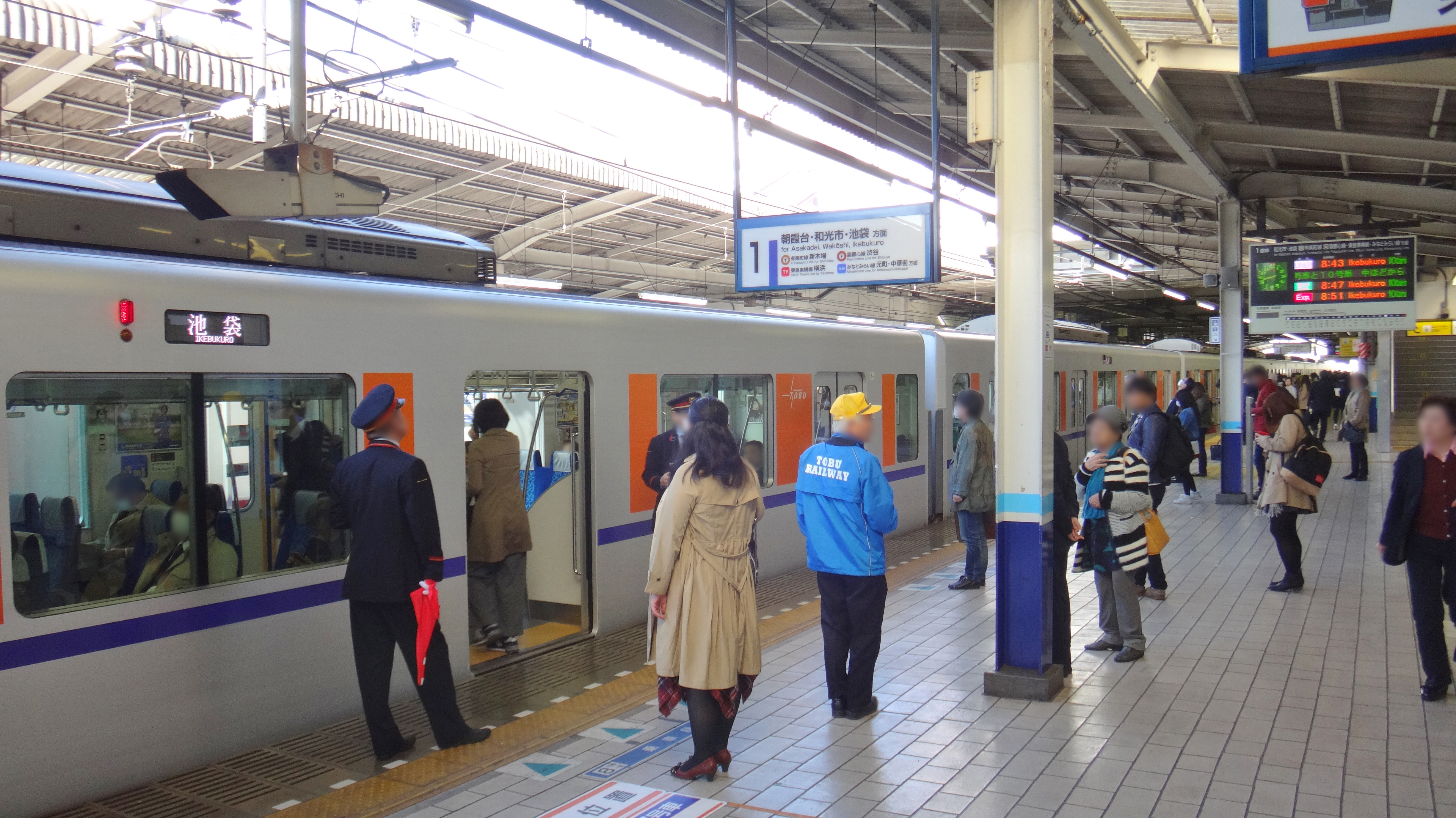 Passengers boarding the morning up TJ Liner 4 service (Tobu 50090 series EMU set 51095) to Ikebukuro at Kawagoe Station